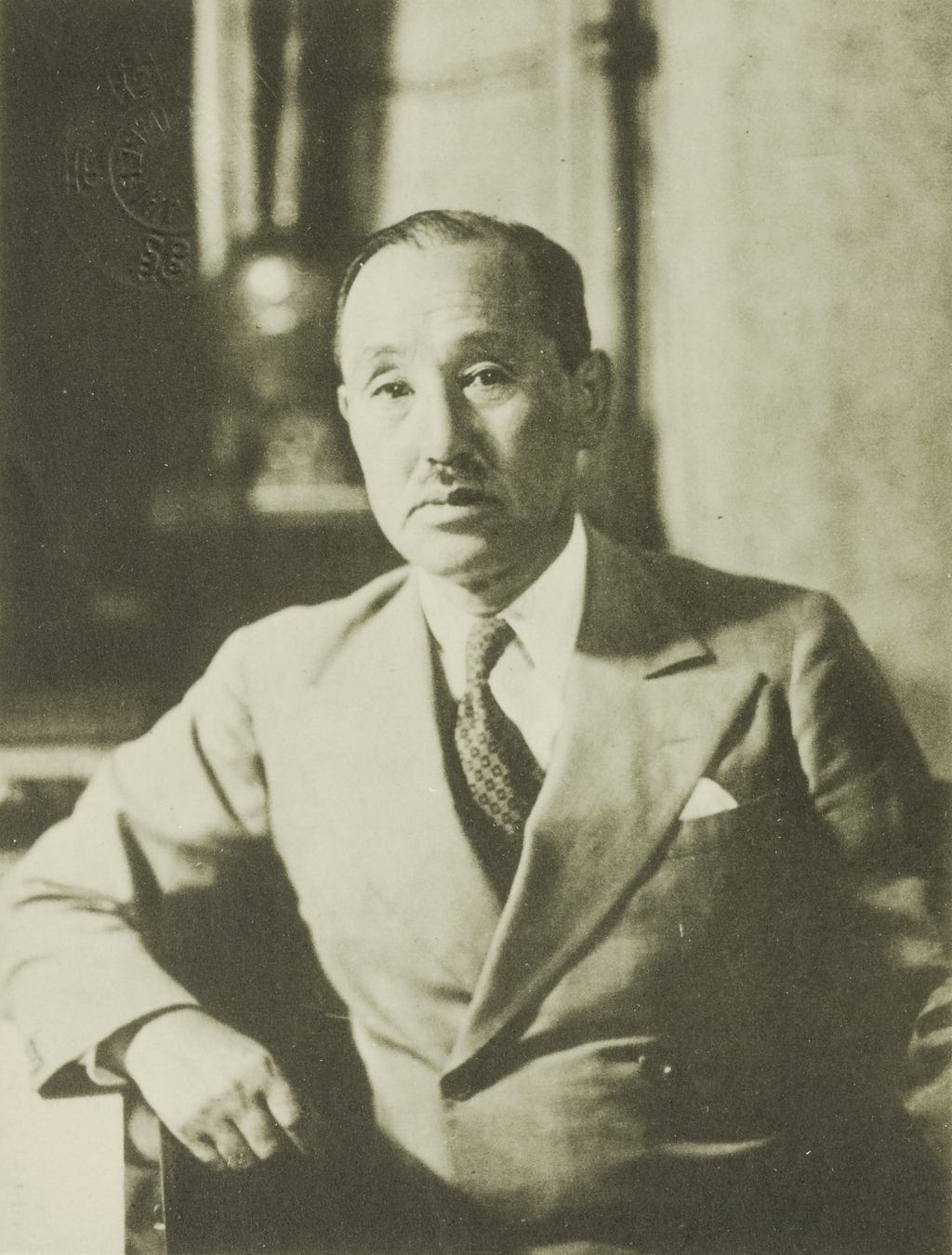 Portrait of Iwanaga Yukichi (岩永裕吉, 1883 – 1939)